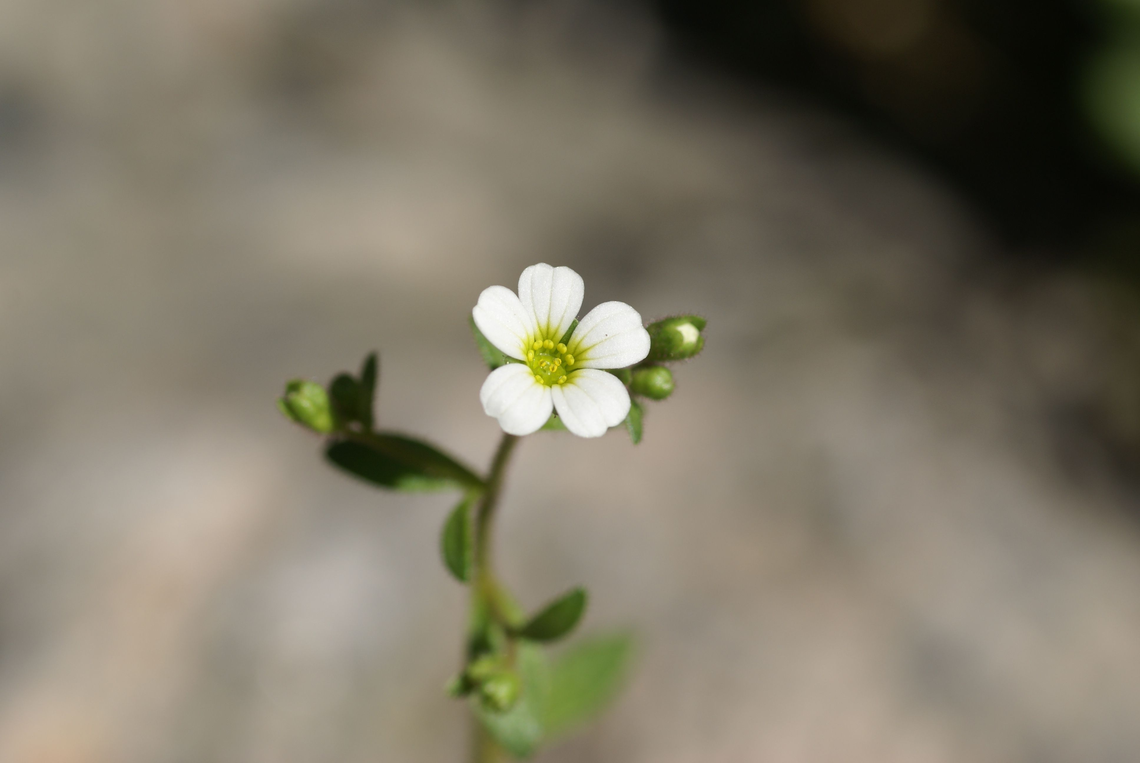 Plant species Saxifraga osloënsis, Stockholm